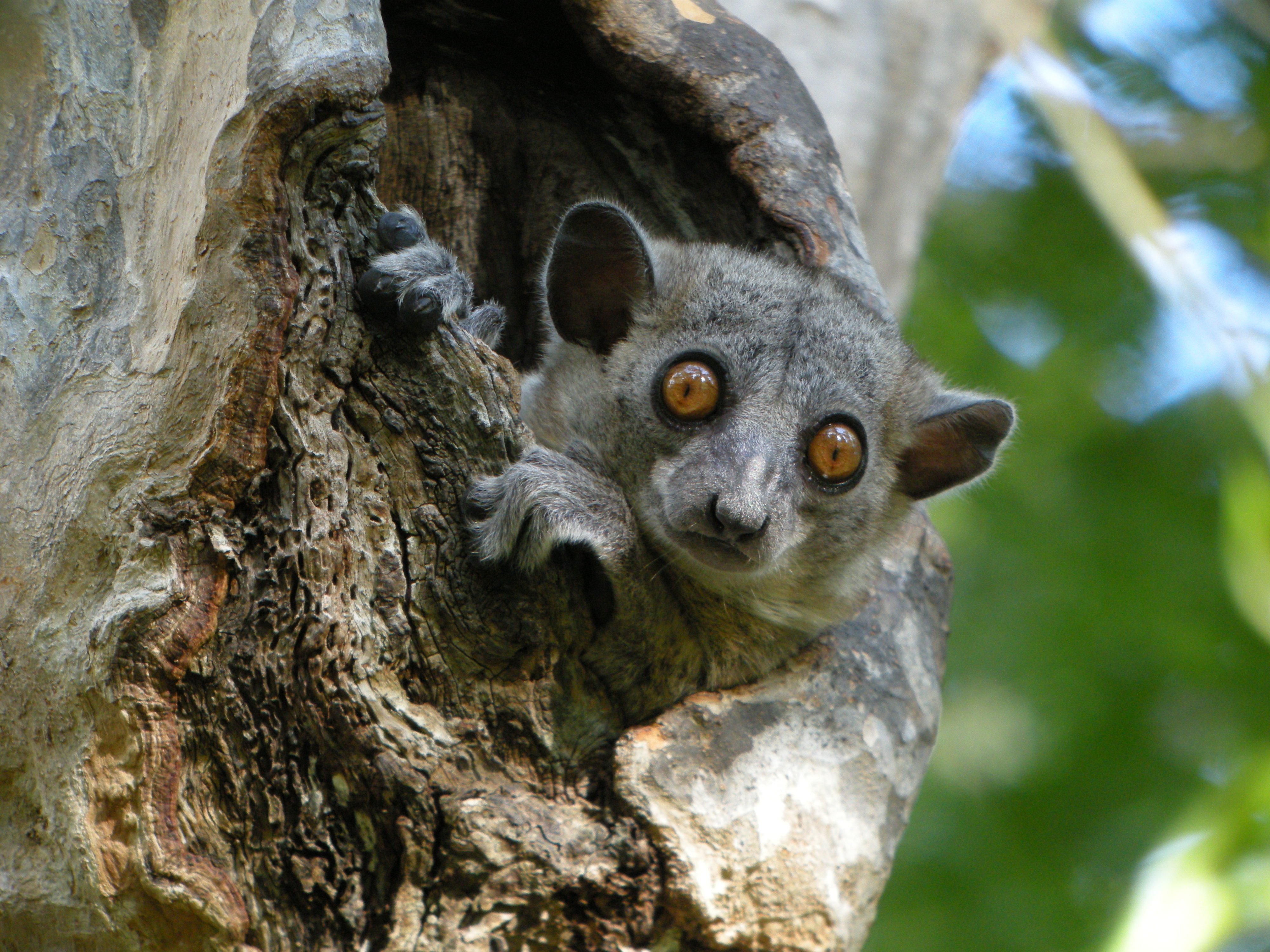 Red-tailed Sportive Lemur, Kirindy, Madagascar At night, these lemurs travel short distances from their daytime resting holes to forage sedately in the forest canopy. The resting metabolic rates of sportive lemurs are among the lowest of a mammal recorded so far. This may be an adaptation to their low-energy leaf diet. Swarowski 80 HD 30 X, Coolpix P5100 (Adapter DCB)